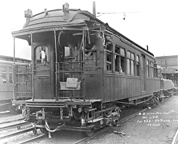 Malbone Street Wreck, train after rescue in yard